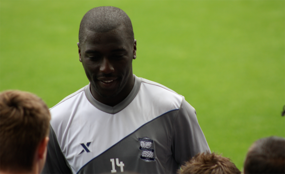 Morgaro Gomis at Birmingham City open training session at St.Andrews' Stadium.